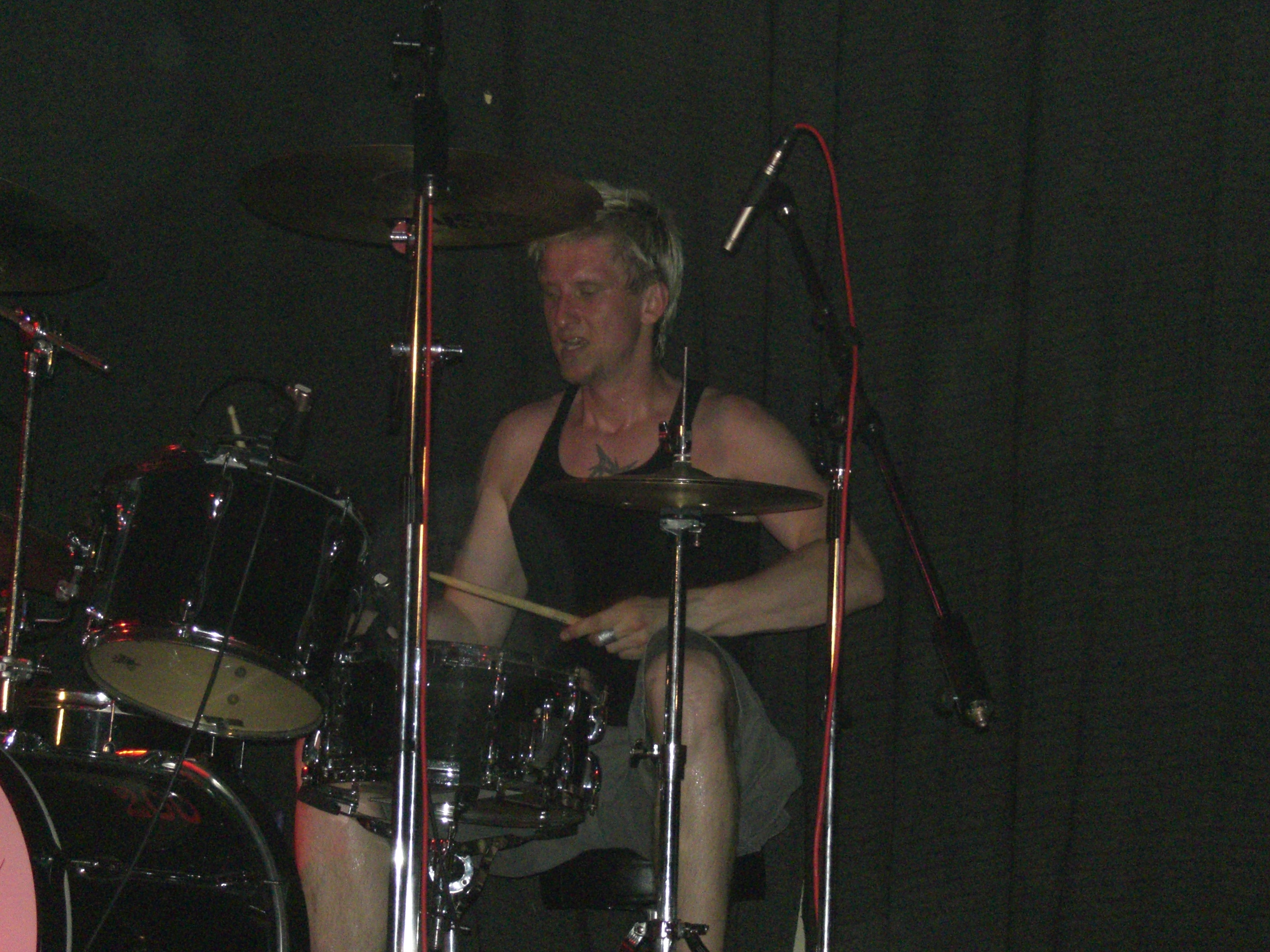 Punk music grup Plexis.